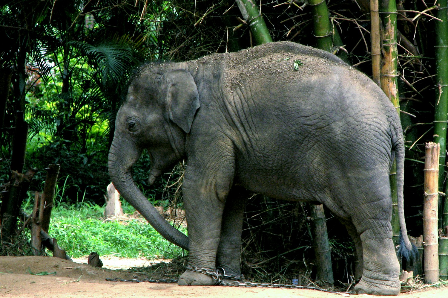 Baby Elephant, Bannerghatta National Park, Karnataka, India